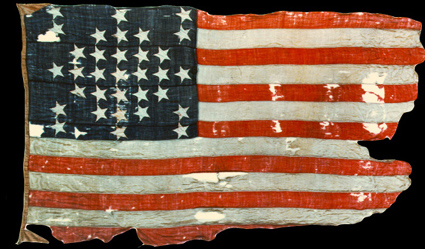 Storm Flag, Fort Sumter National Monument